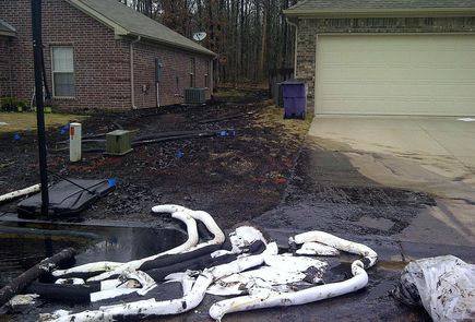 Mayflower oil spill - Subdivision5